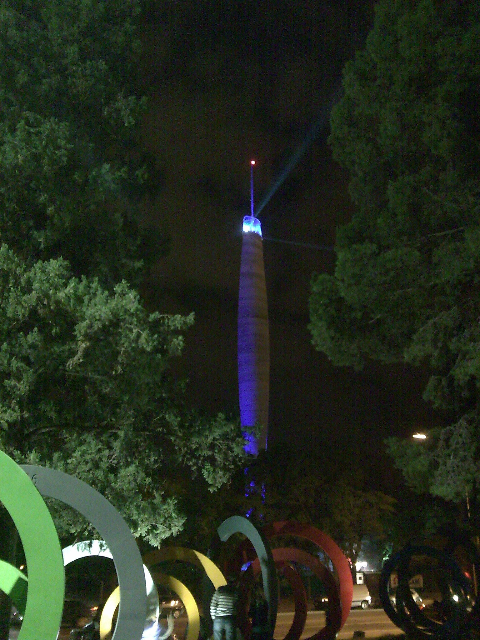 Faro del Bicentenario (Bicentennial Lighthouse) is a monument of 102 meters (335 ft.) located in Nueva Cordoba neighborhood. Córdoba (Argentina).